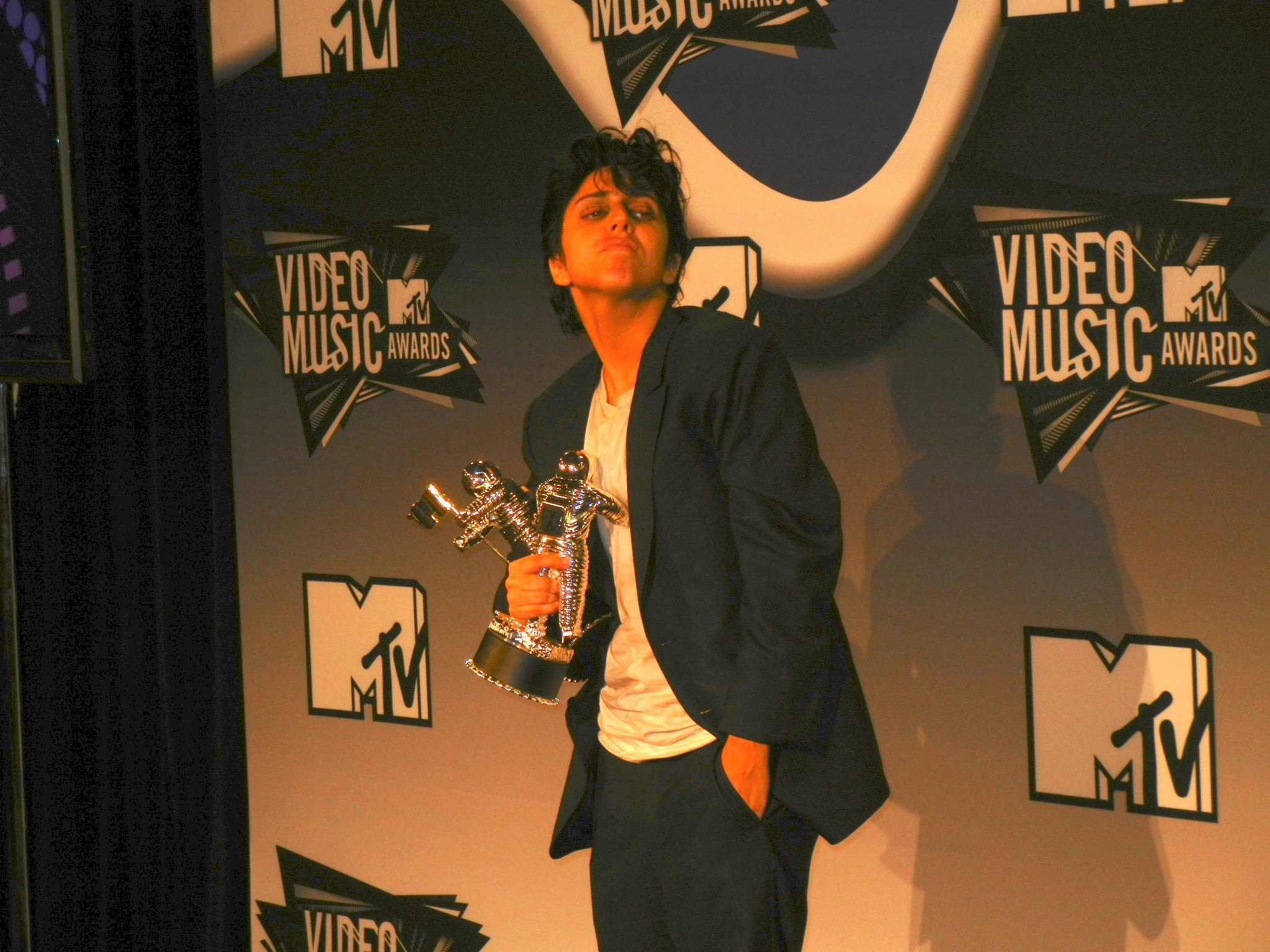 Lady Gaga at MTV Video Music Awards 2011.